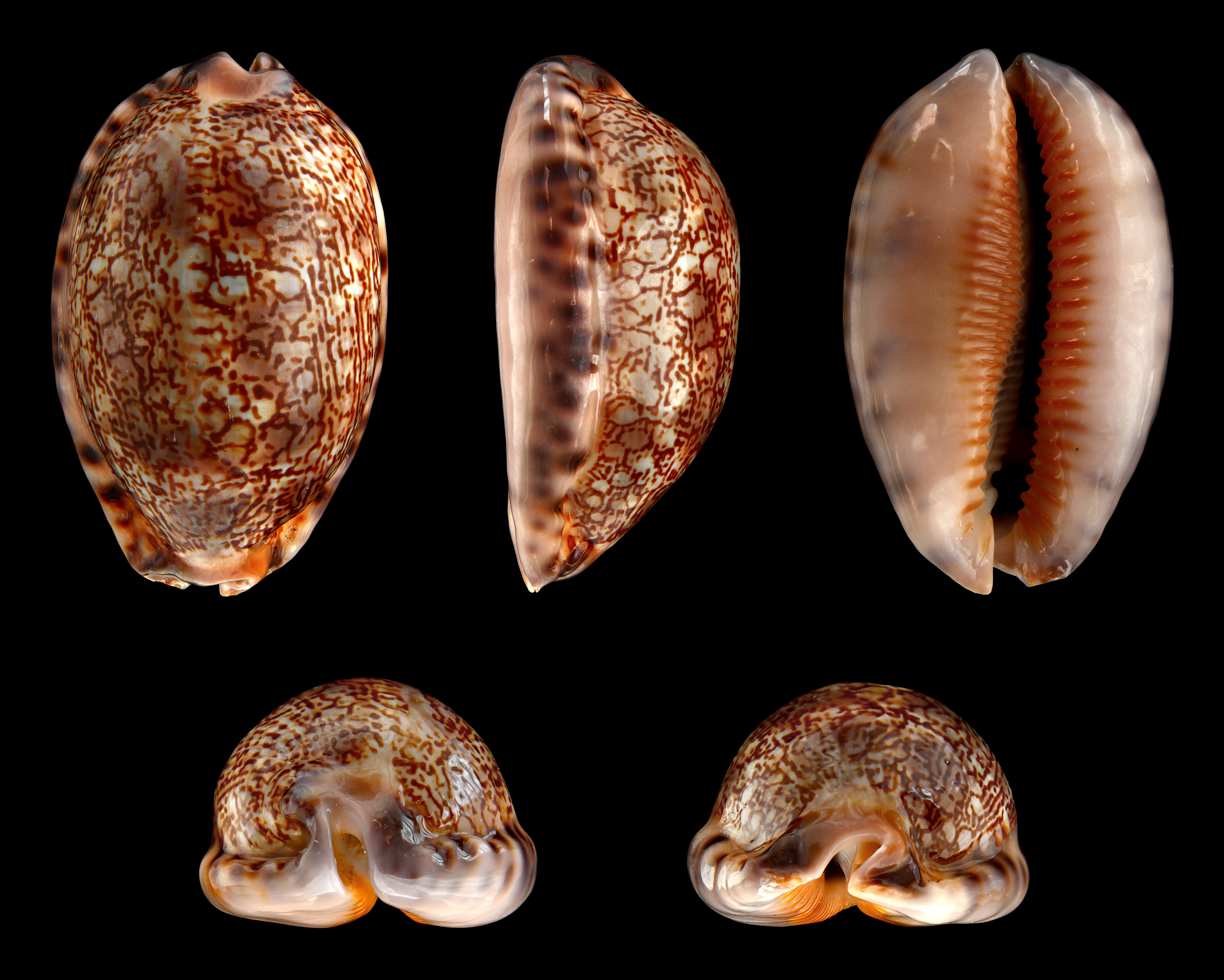 Arabian Cowry, Length 5 cm; Originating from an Island near Confifi, Beruwala, Sri Lanka; Shell of own collection, therefore not geocoded.